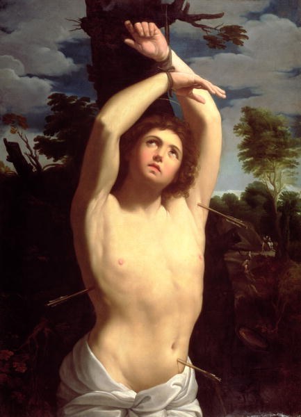 Saint Sebastian